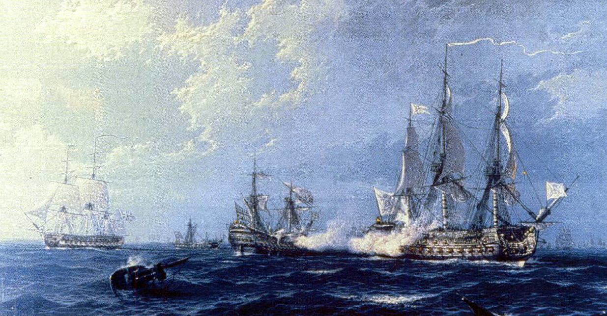 The 70-gun Spanish ship of the line Princesa in battle with HMS Lenox, Kent and Oxford, 8 April 1740. The 64- cannon Princesa ship , commanded by Pablo Agustín de Aguirre, on April 19, 1740, held a stubborn combat for more than seven hours with the British Orford, Kent and Lenox, 70 cannons, at Cape Prior , to whom she had to surrender. The Princesa , built in Guarnizo in 1730, served in the Royal Navy under the name of Princessa until 1784 when it was sold. It was scrapped in 1809.